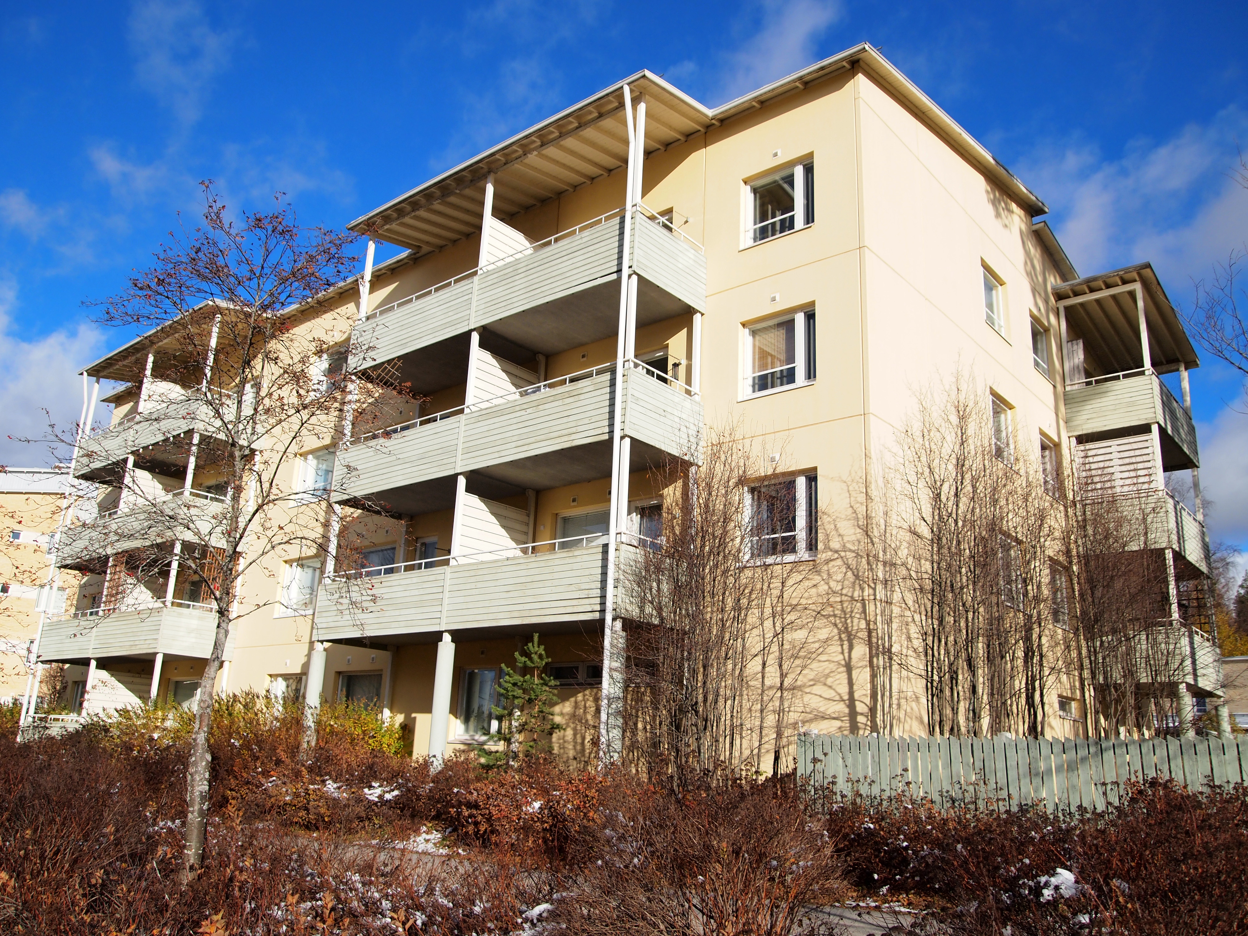 Apartment buildings in Kuokkala, Jyväskylä. Template:Valssikuja 2, Jyväskylä. This photograph was taken with a Olympus E-PL1.